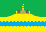 Flag of Kholmskoe, Krasnodar krai, Russia